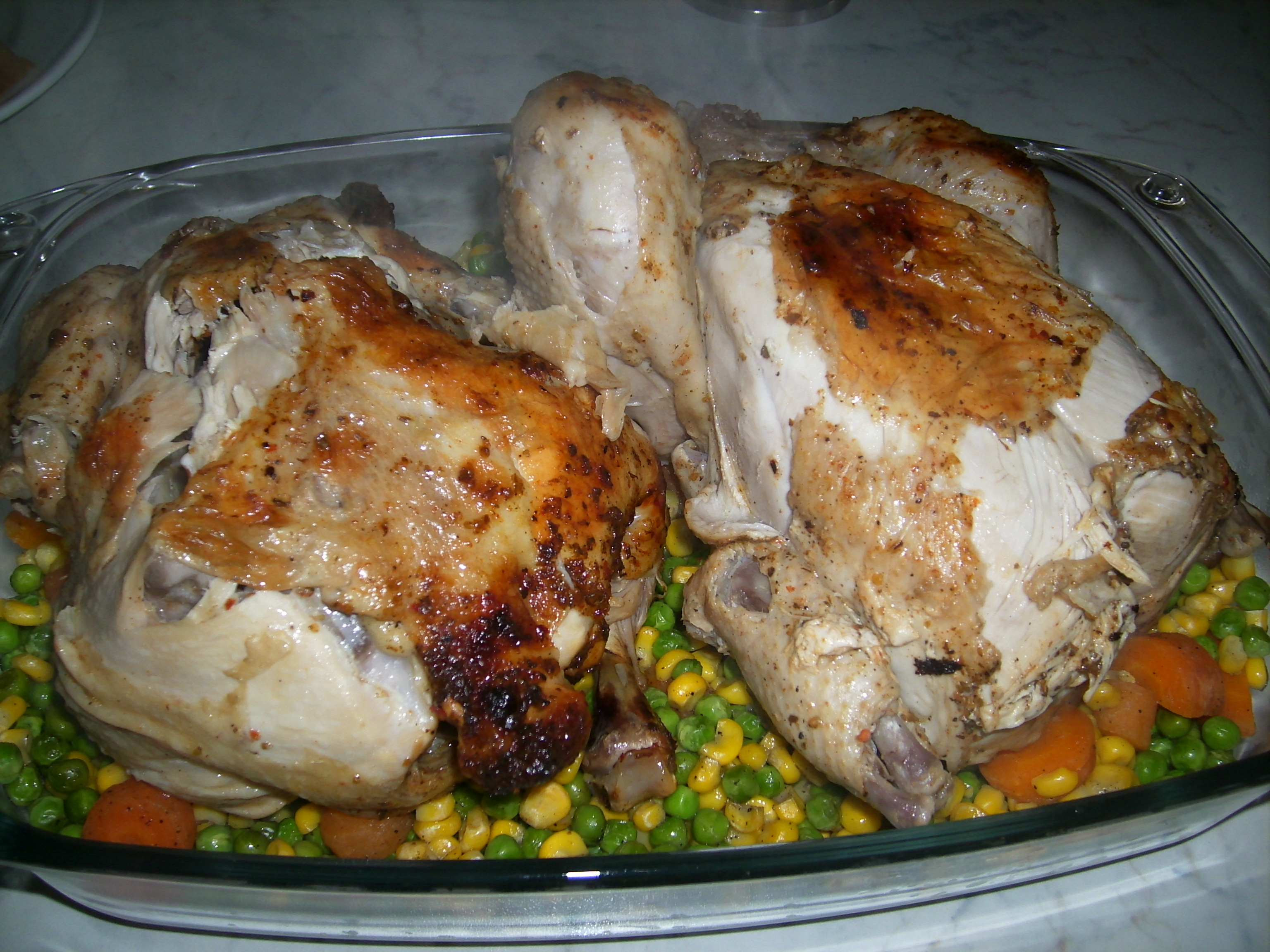 Djaj meshwi.